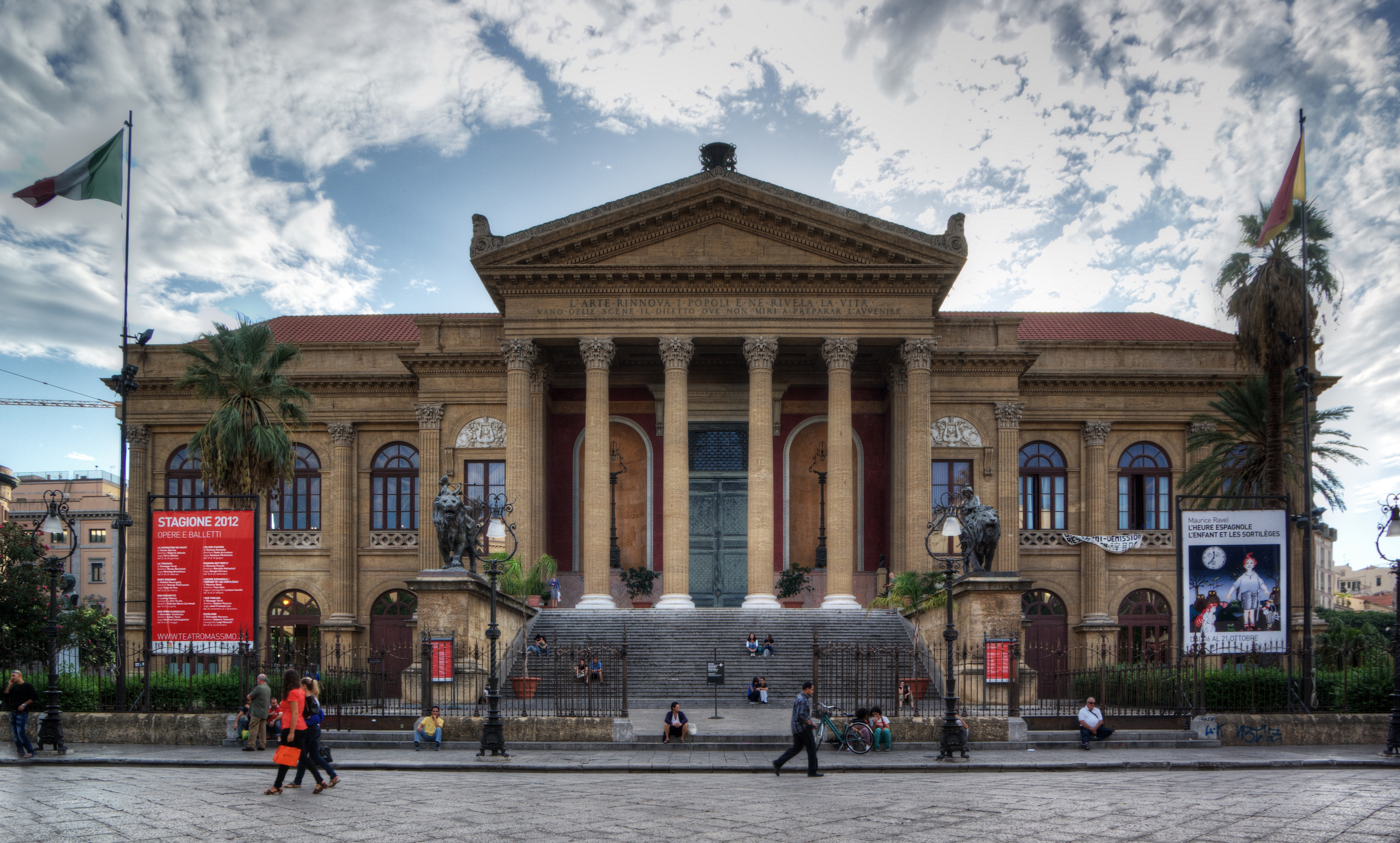 Italy, Sicily, Palermo, Teatro Massimo